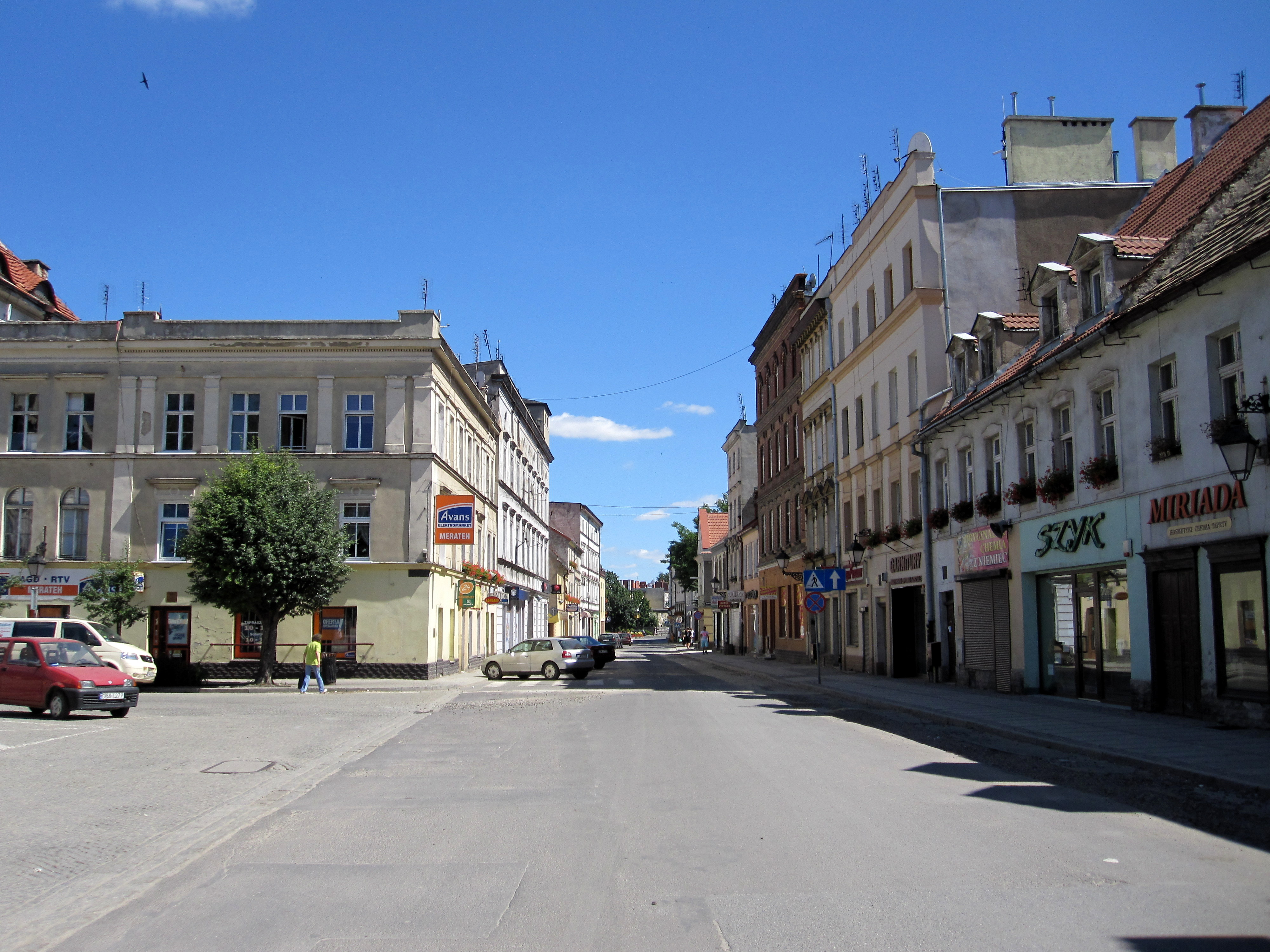 Market Square in Świebodzice